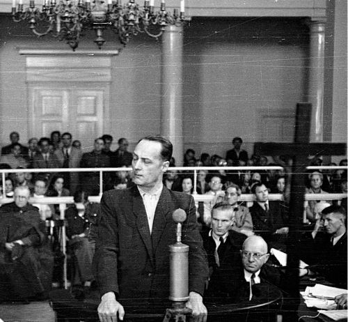 Colonel Franciszek Niepokólczycki, soldier of Polish Home Army during a show trial made by communist authorities in Poland in 1947